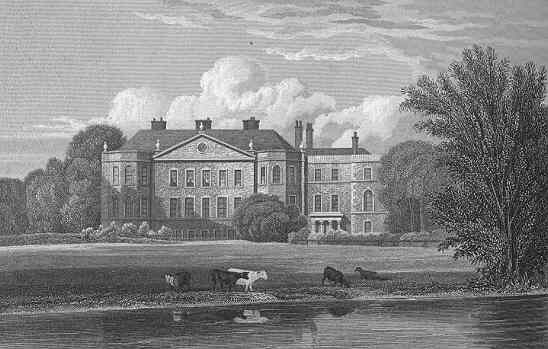 Markeaton Hall by JP Neal in JONES' VIEW OF THE SEATS... January 1st 1829